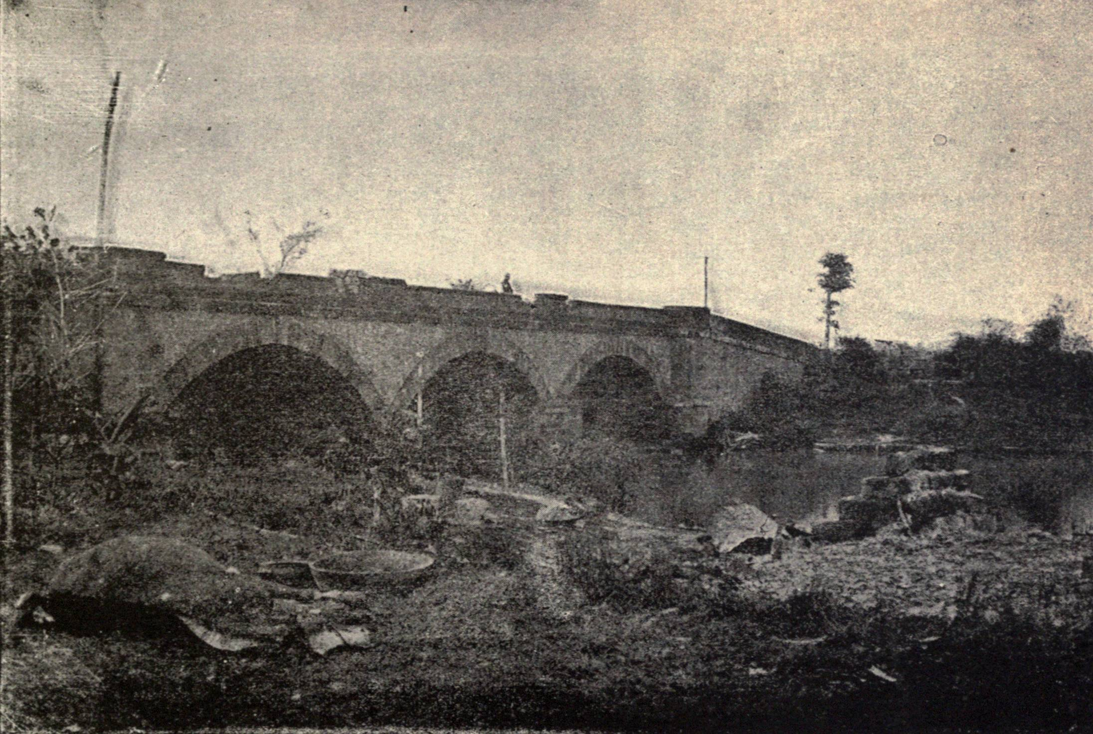 Original description (cropped out): Bridge of San Juan del Monte. Photo was taken during the 2nd Battle of Manila, 1899. From Souvenir of the 8th Army Corps, Philippine Expedition, published by Dow Bros. in Manila, 1899.